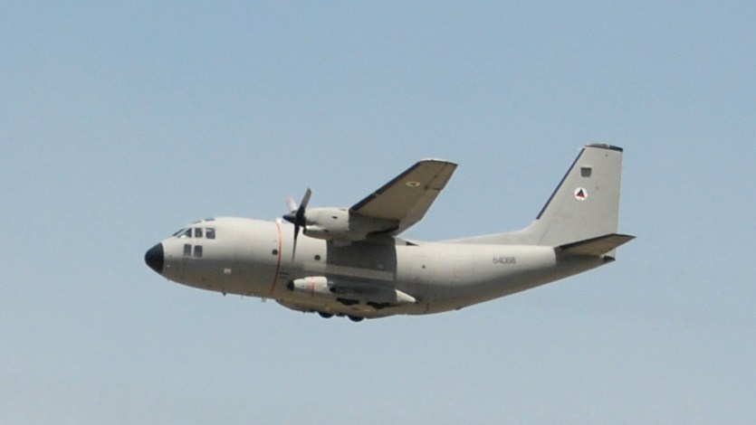 C-27 of the Afghan Air Force (this image was cropped by Officer)